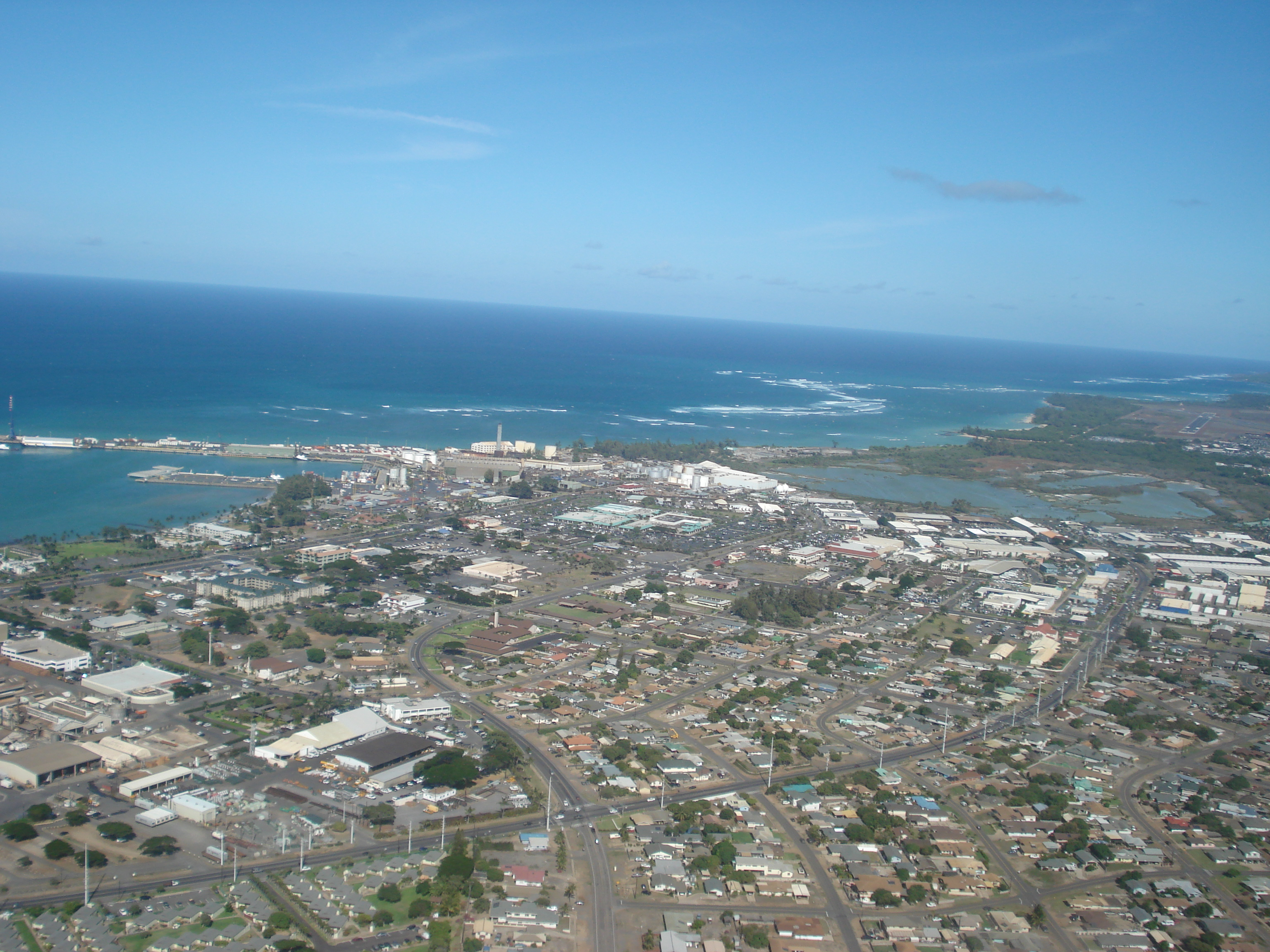 Air view of Kahului. (Uploader on Flickr identified the shot as "Air View of Wailuku." But it's been misidentifed.)